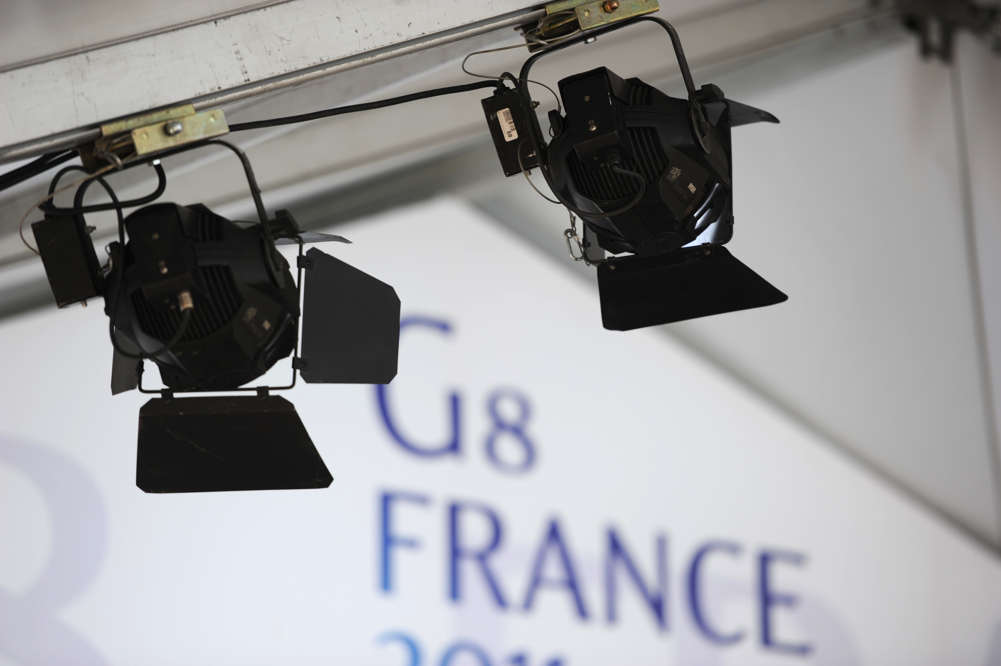 Source Four PAR lights at the North entrance of the Centre international de Deauville during the 37th G8 summit in Deauville, France.